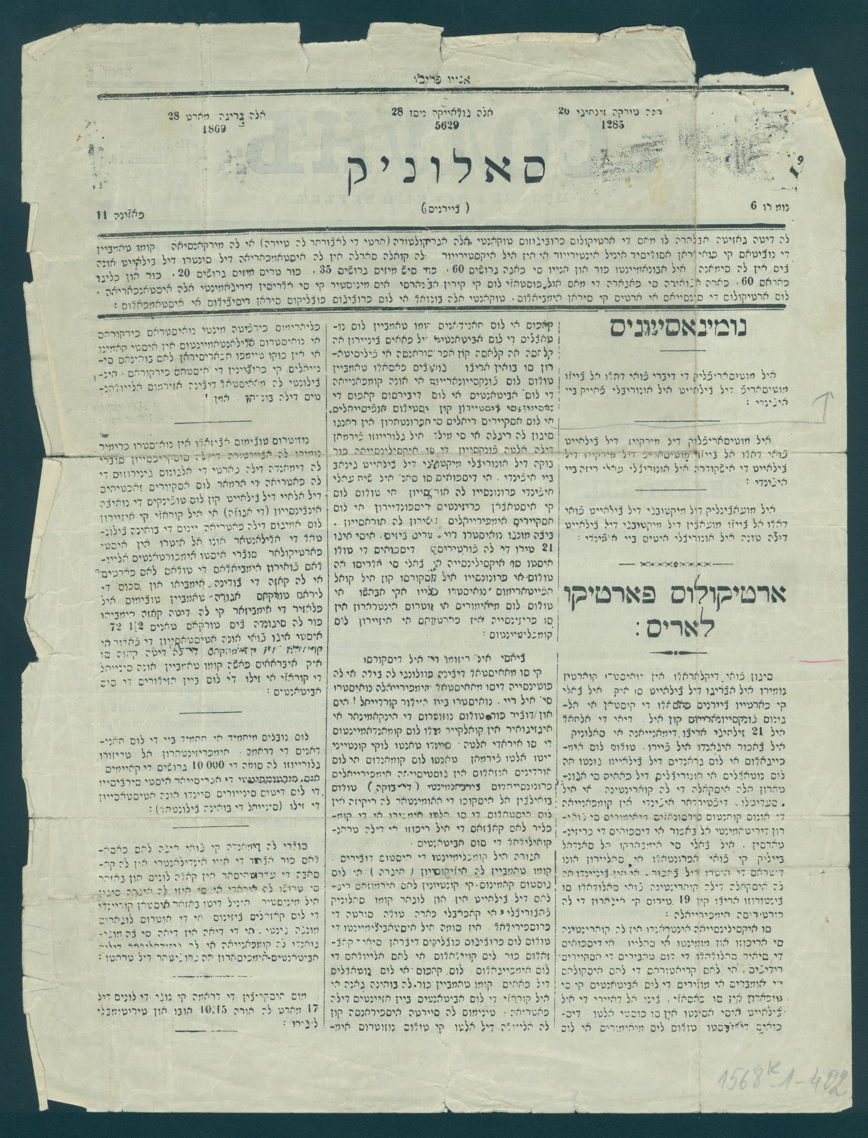 Solun Newspaper 1869-03-28 in Ladino